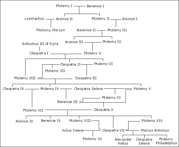 Family tree of the Ptolemaic dynasty of Egyptian pharaohs